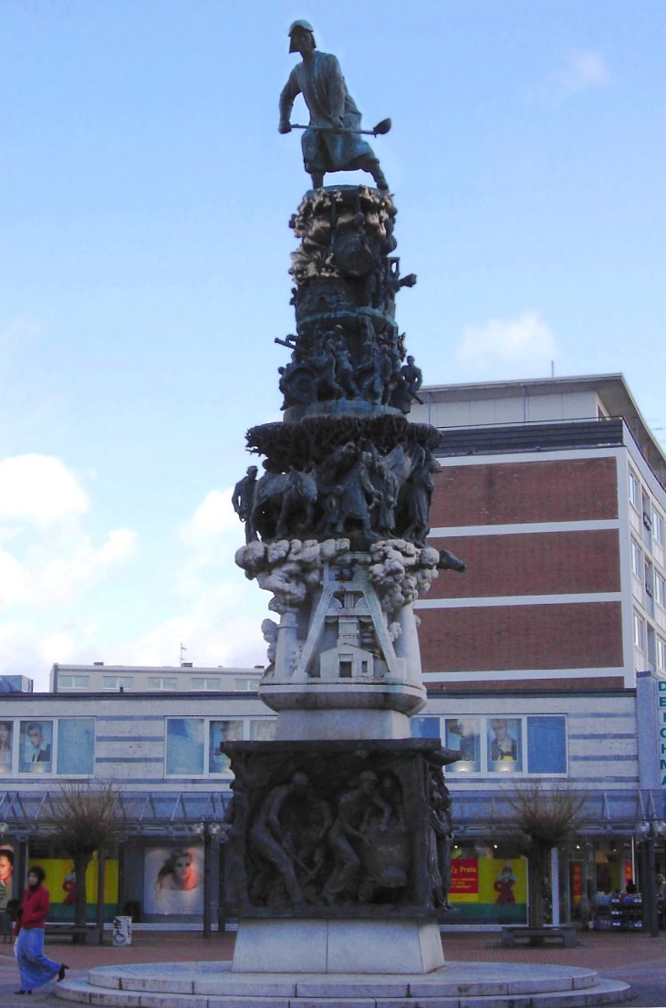 Tower of Work from Weber in Salzgitter Lebenstedt.